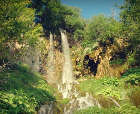 A waterfall. One of the most beautifull in Serbia. The water is clean and drinkable.Srpski (latinica): Vodopad. Jedan od najlepsih u Srbiji. Voda je cista i pijaca.